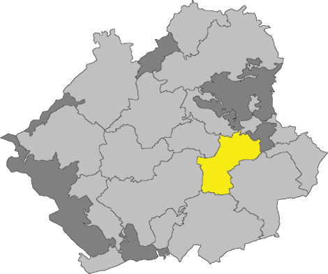 A Map of Thiersheim in Landkreis Wunsiedel, Bayern, Germany.